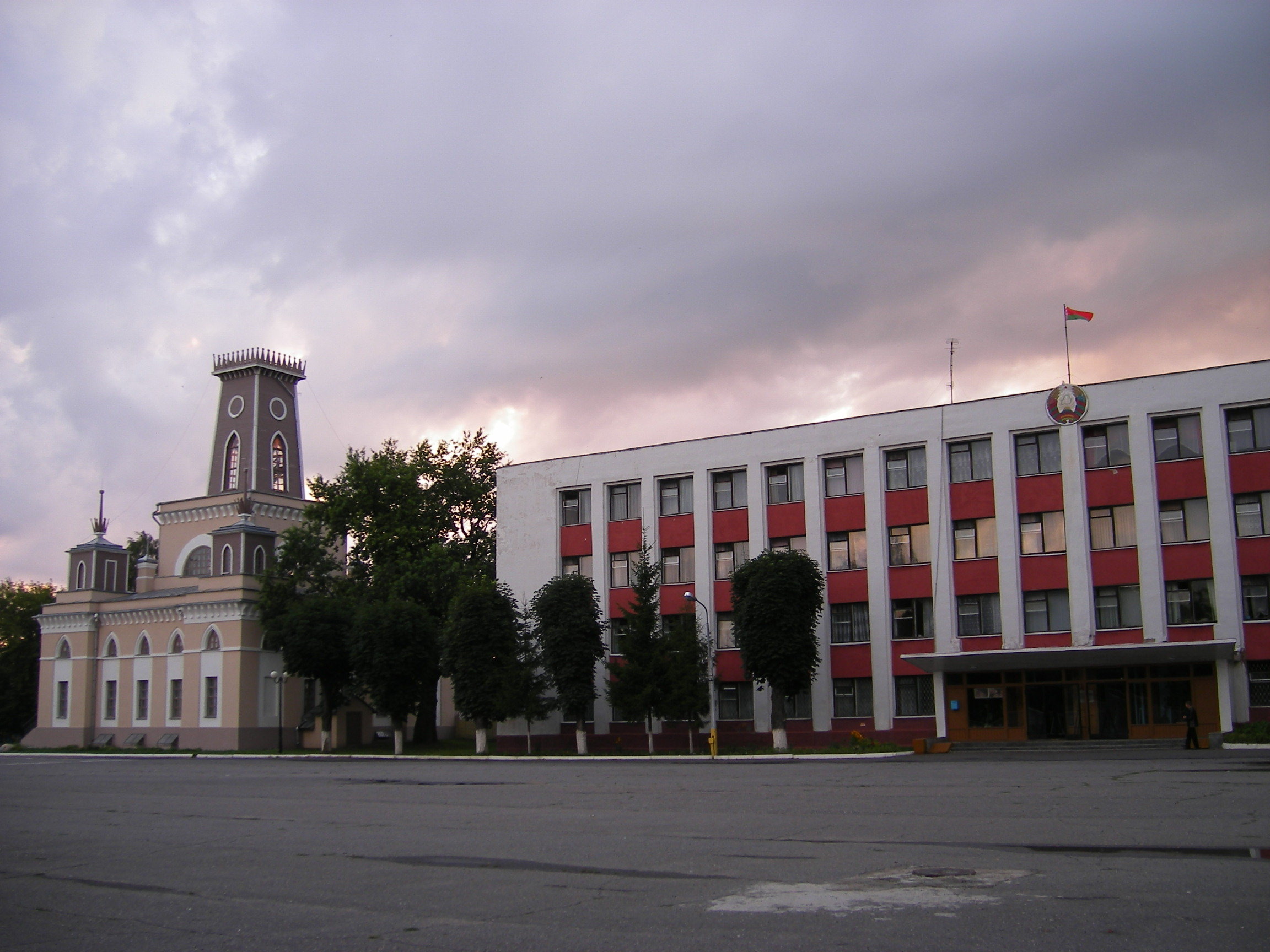 Chachersk, Raion Administration Building